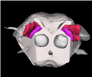 Human mesencephalon simulation, in which substantia nigra can be seen coloured. Pars reticulata is red and pars compacta is pink.